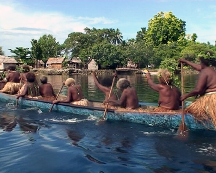 View of Laulasi Island, Malaita